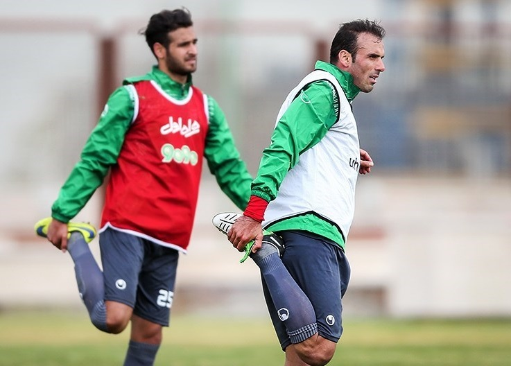 Jalal Hosseini and Ahmad Nourollahi in Iran training